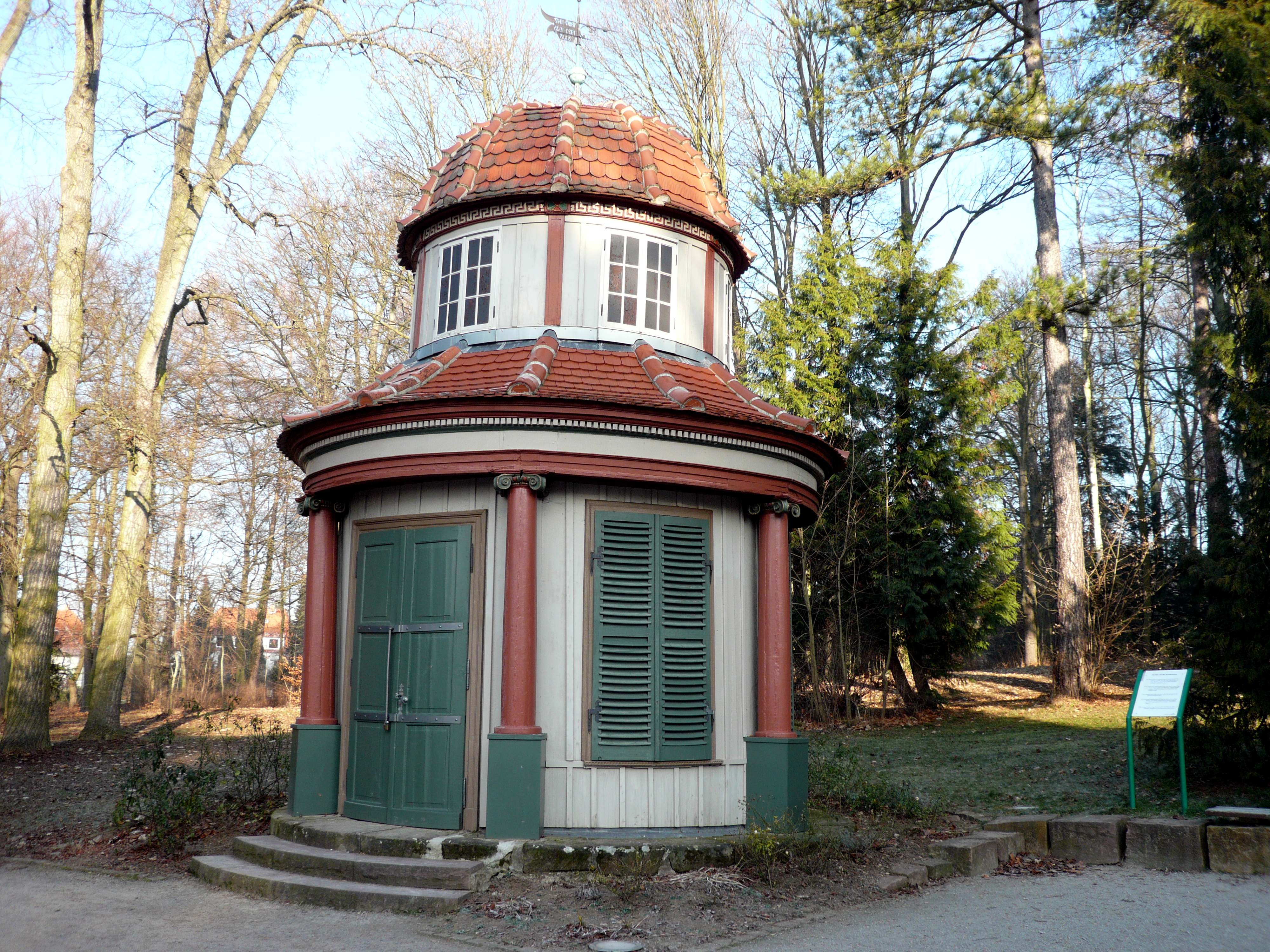 So-called Jerome pavillion in a park at Goettingen, built around 1800, in which king Jerome Bonaparte is said to have had dates with local women